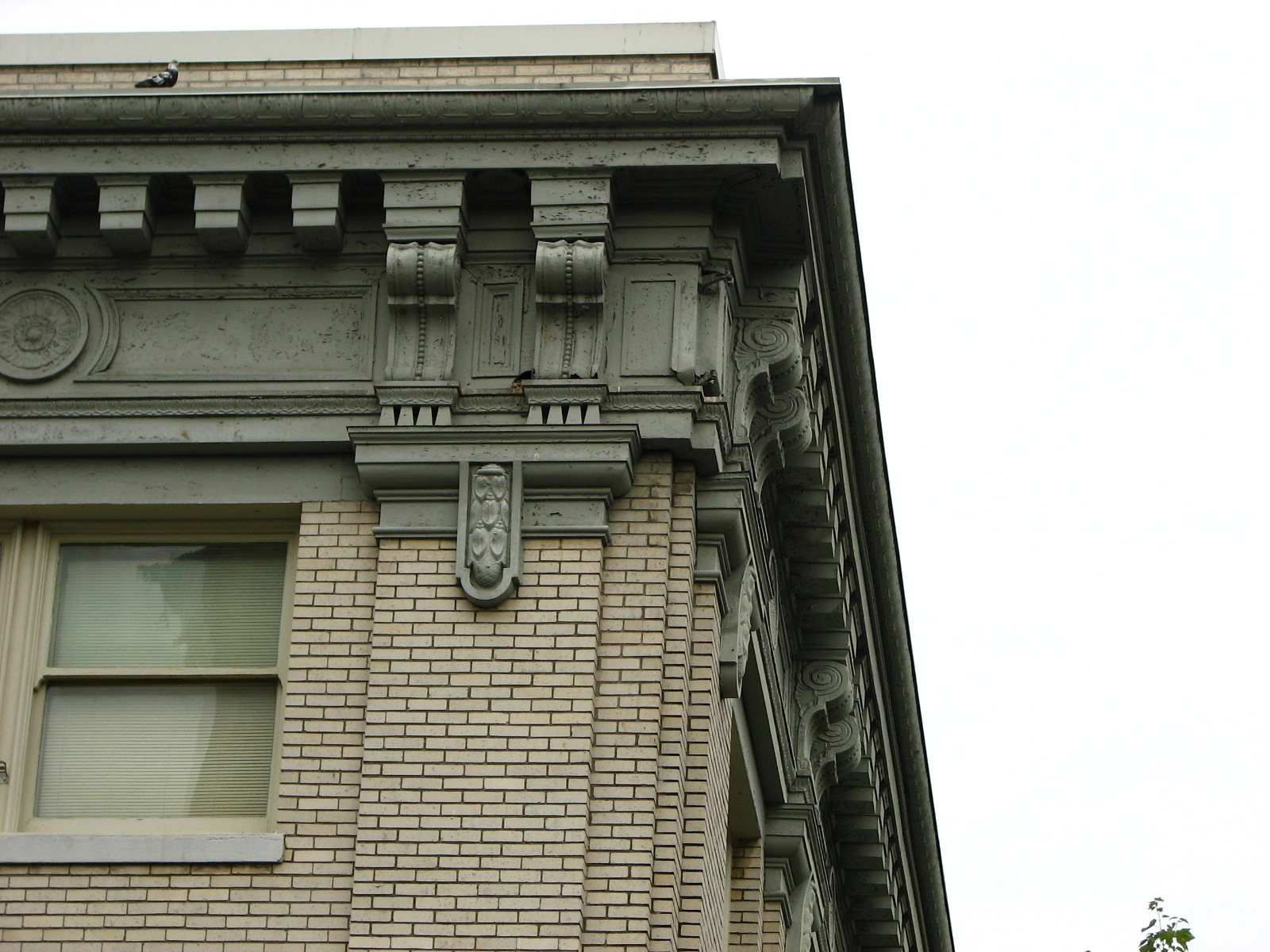 The historic Broadway Hotel (built 1913), located at 10 Northwest Broadway in Portland, Oregon, United States, is listed on the US National Register of Historic Places. It is current in use as a single-room occupancy (SRO) hotel.